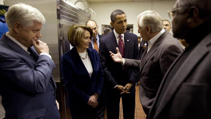 President Barack Obama meeting with House leaders before addressing the Democratic caucus at a retreat in Williamsburg, Virginia.